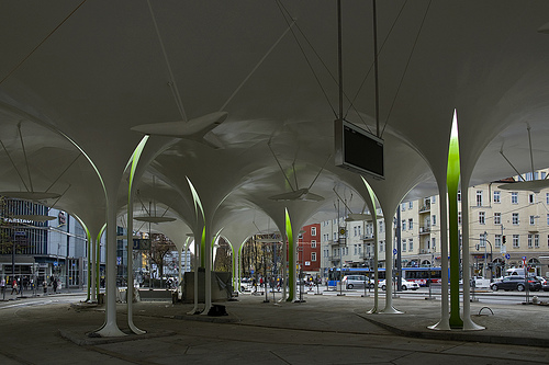 Munchener Freiheit station